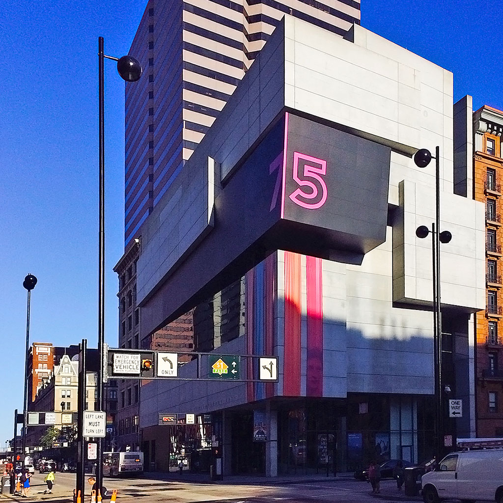 Corner view of Center for Contemporary Art looking west